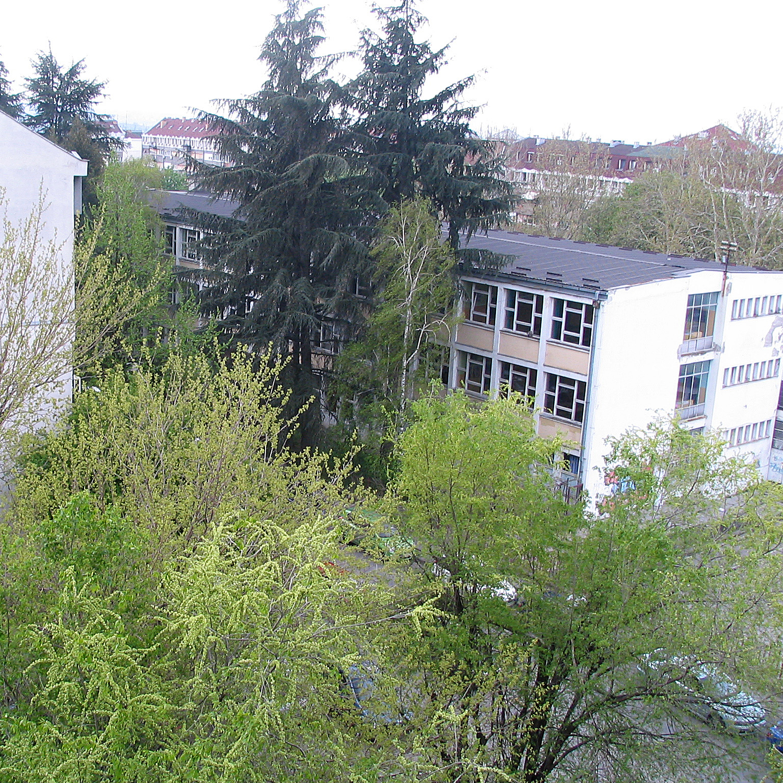 Filip Kljaic primary school, Belgrade